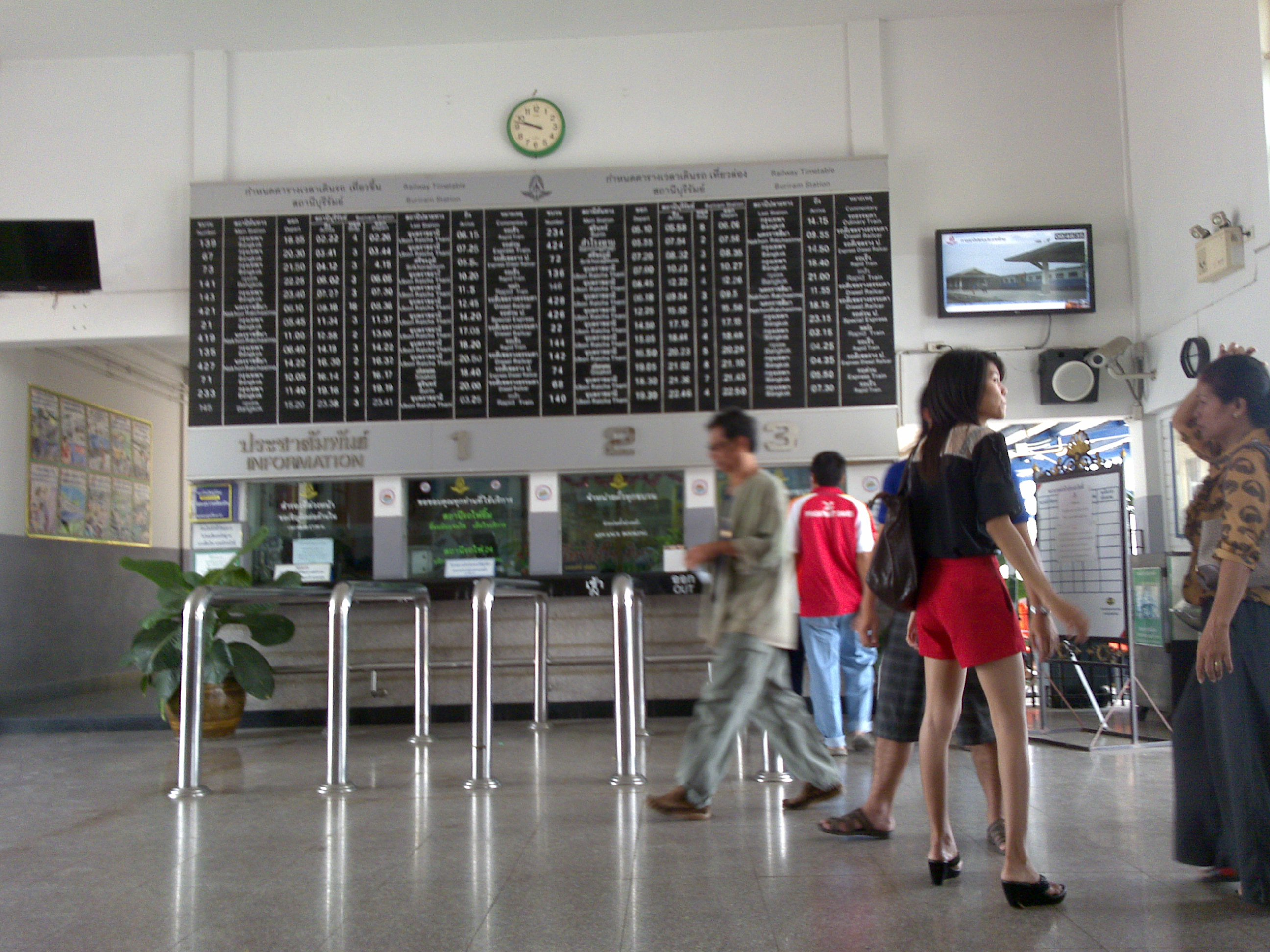 Train Time Table at Buriram Station. August 4 ,2012